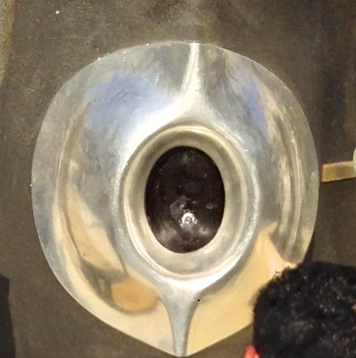 A close up of the Blackstone on the corner of the Kaba